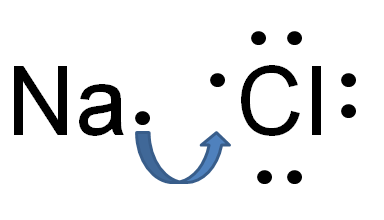 Sodium chloride ionic bond